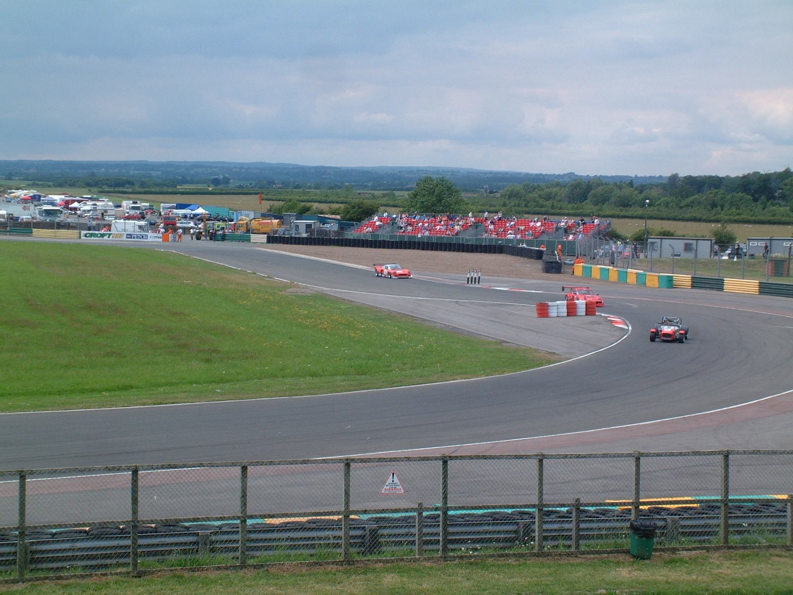 The first few corners of Croft Circuit